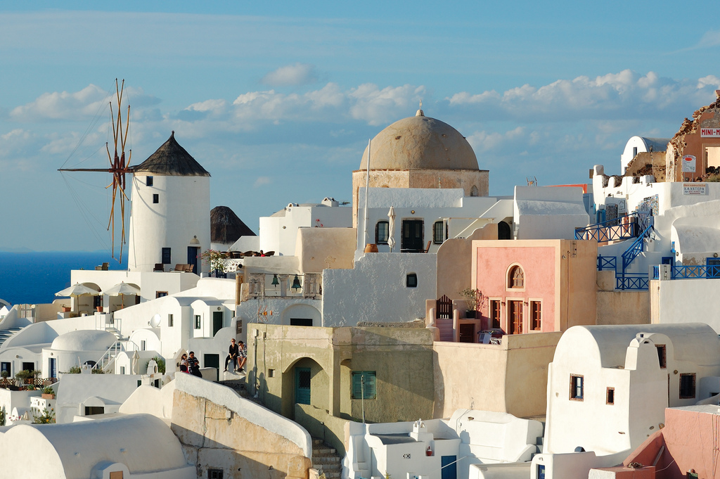 Oia Santorini Greece